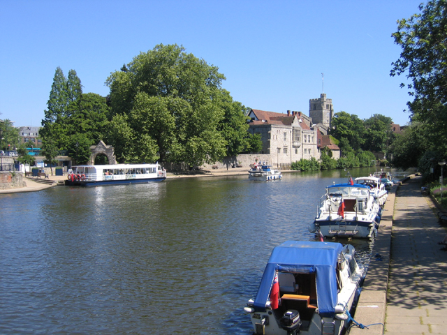 River Medway at Maidstone, Kent. A summer view towards the Archbishop's Palace taken from the River Bar & Grill terrace on The Broadway.